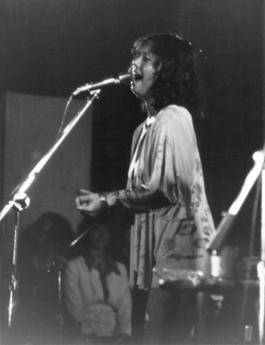 Yvonne Elliman (with Eric Clapton off-image to the right/her left) - There's One In Every Crowd Tour, Swing Auditorium, San Bernardino, CA - Aug. 15, 1975